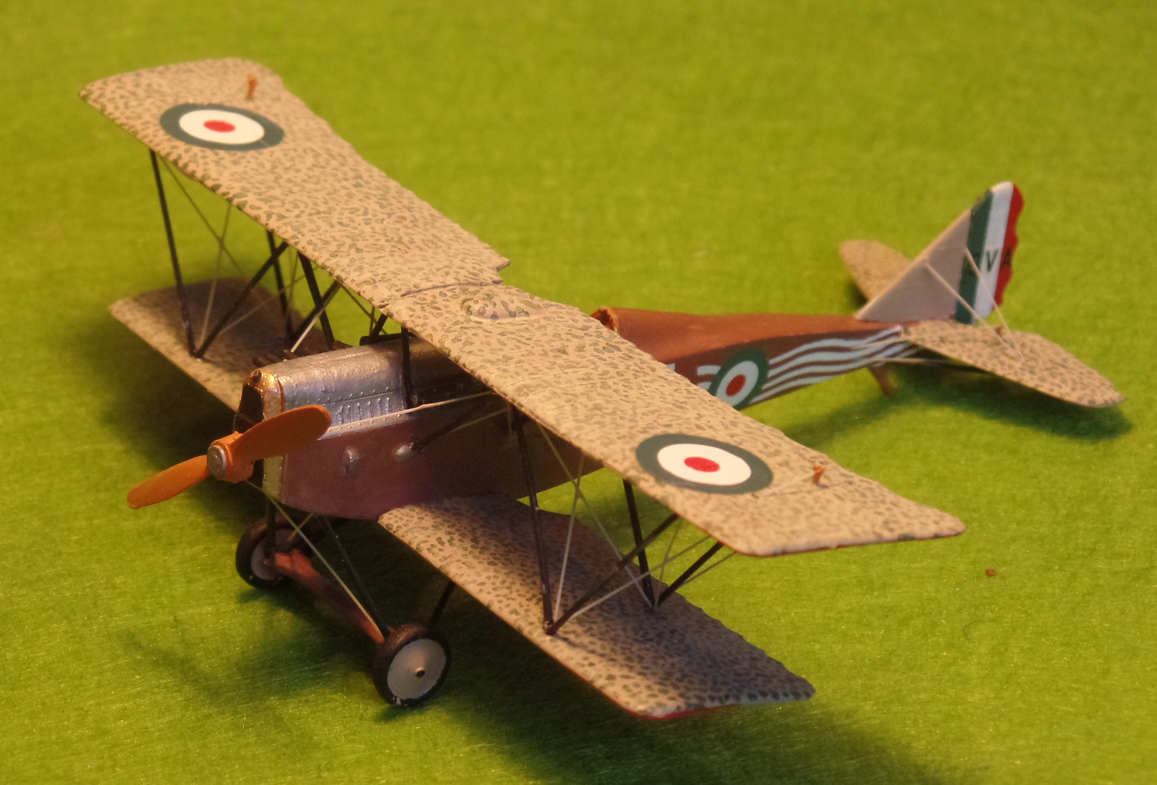 Aircraft Model 1/72 (Pegasus)